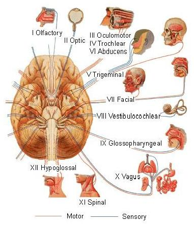 Cranial Nerves